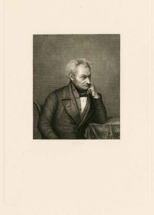 The german painter and etcher Johann Adam Klein (1792-1875)